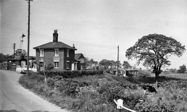 Brampton (Suffolk) Station. View northward, toward level-crossing over Ipswich (left) - Lowestoft/Yarmouth (right) secondary main line. The station is still open, but the trains now only go to Lowestoft.